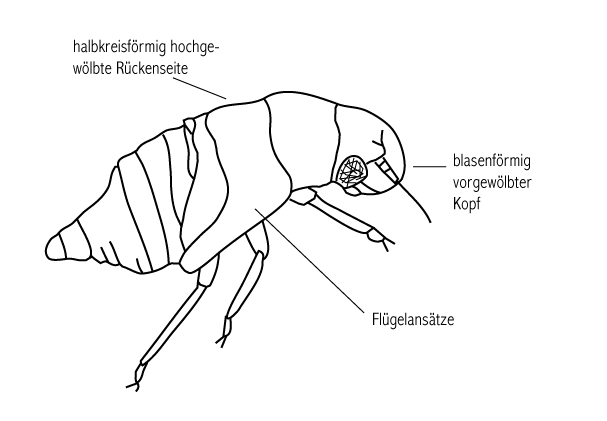 Scheme drawing: a nymph of Cercopoidea (notes in German)